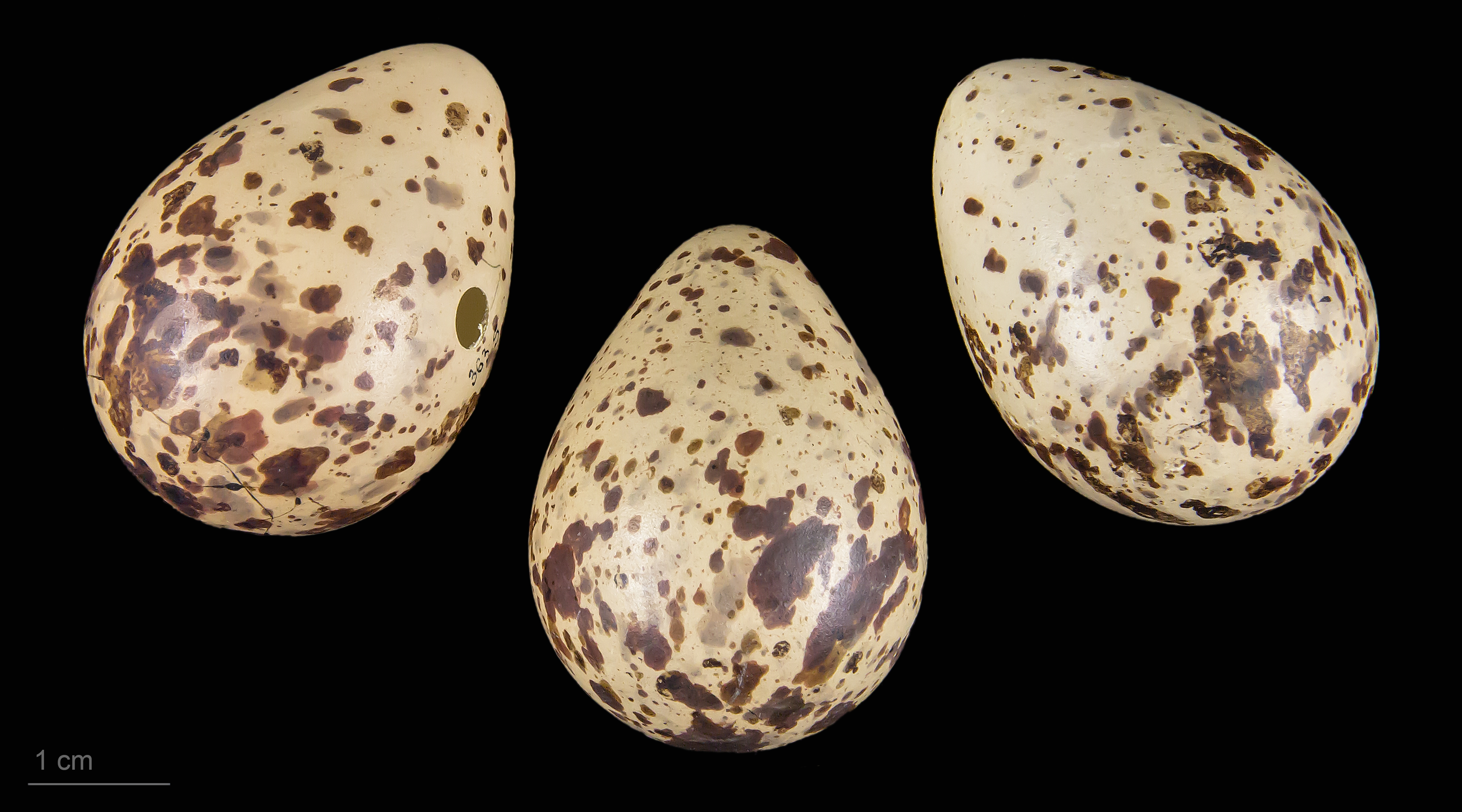 Eggs of wood sandpiper Three specimens of the same spawn ; collection of Jacques Perrin de Brichambaut.